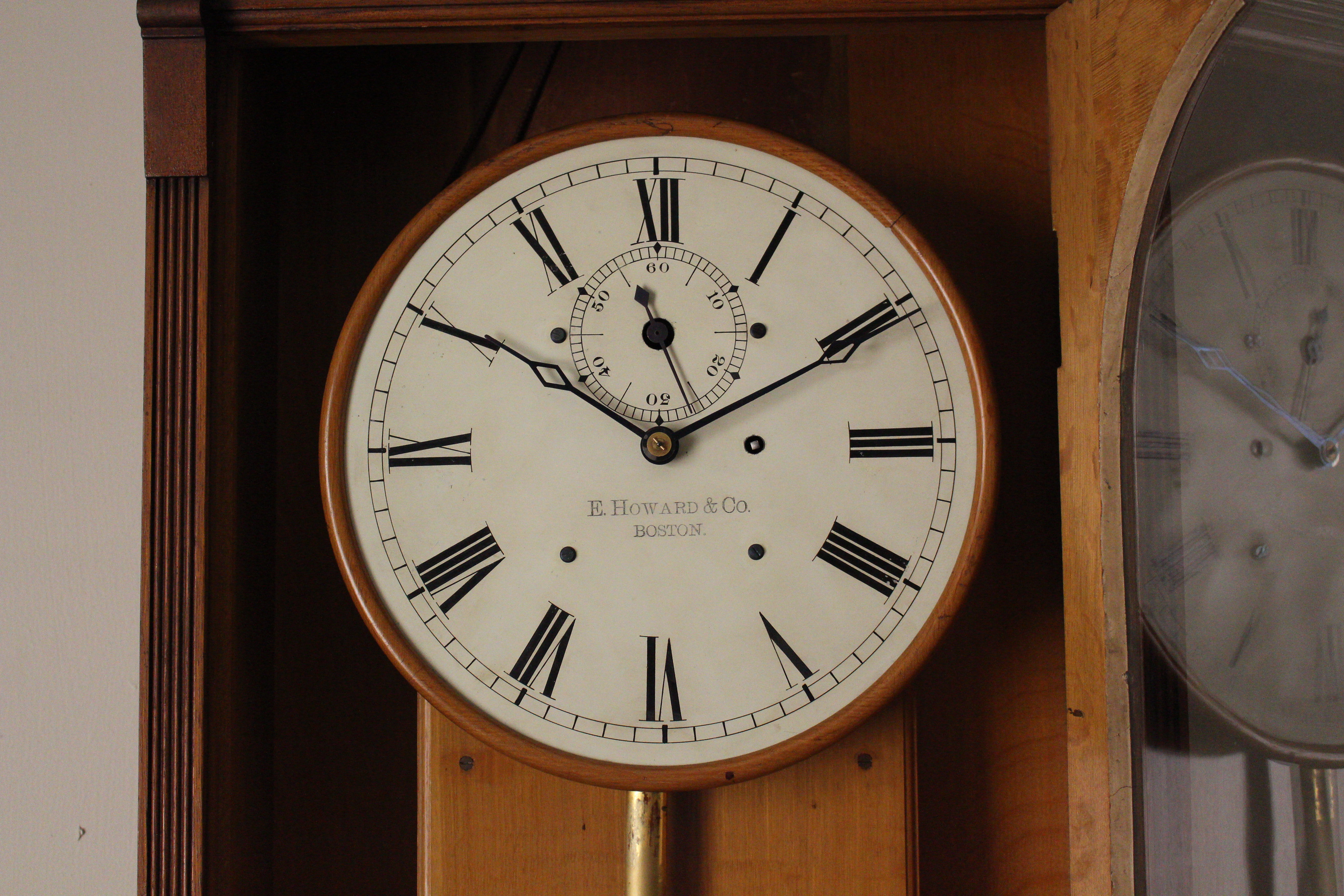 Closeup of the dial of a #89 Regulator by E. Howard & Co. (1895)